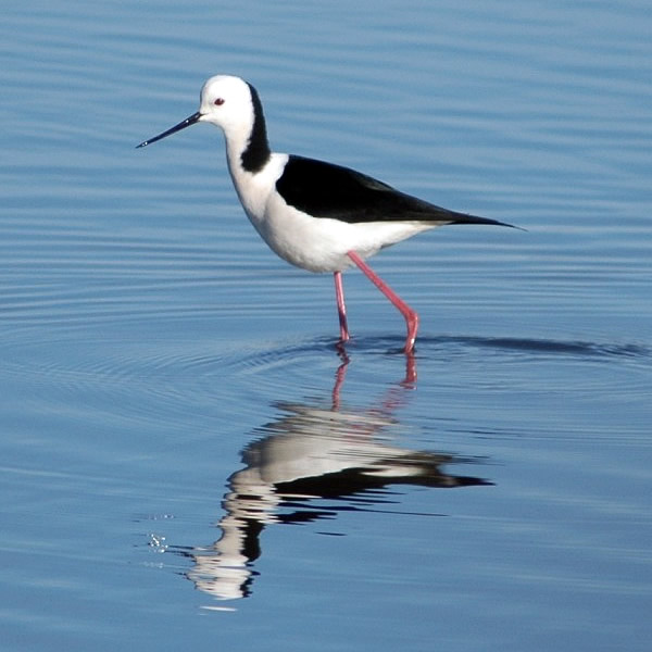 Bird, White-headed Stilt, Himantopus leucocephalus